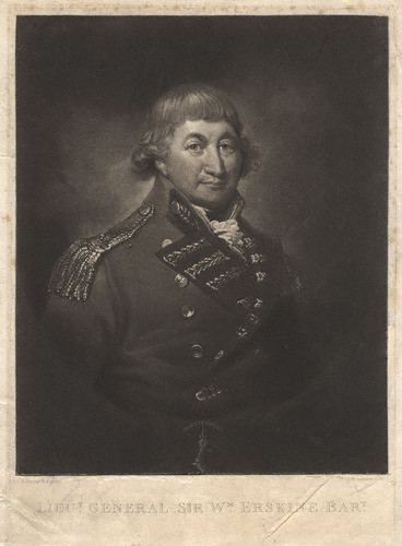 Sir William Erskine, 1st Bt by Samuel William Reynolds, after Richard Cosway mezzotint, early 19th century 14 1/2 in. x 11 in. (368 mm x 278 mm) paper size Purchased, 1966 NPG D2311